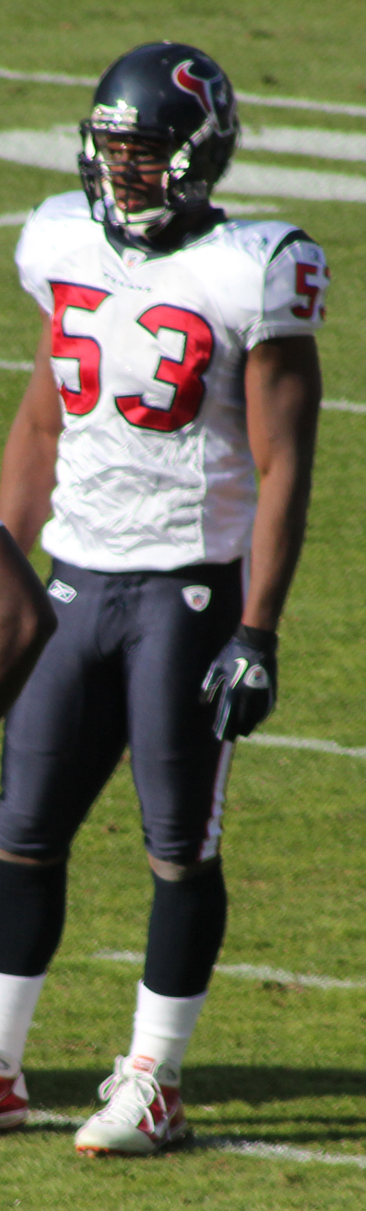 Stanford Keglar, a player on the Houston Texans American football team.